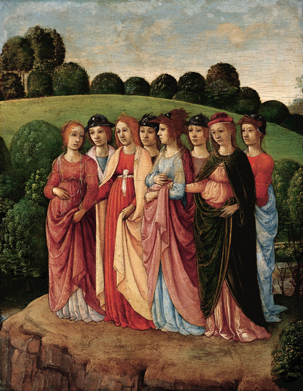 Chaste Women in a Landscape, Tempera on panel, 11-¾ x 9-¼"